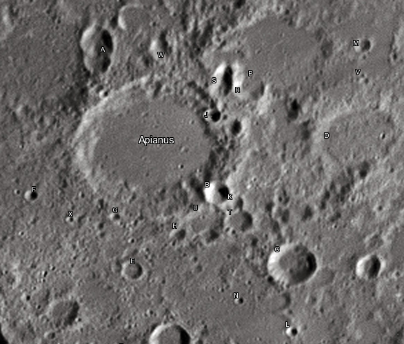 Apianus lunar crater as seen from Earth with satellite craters labeled